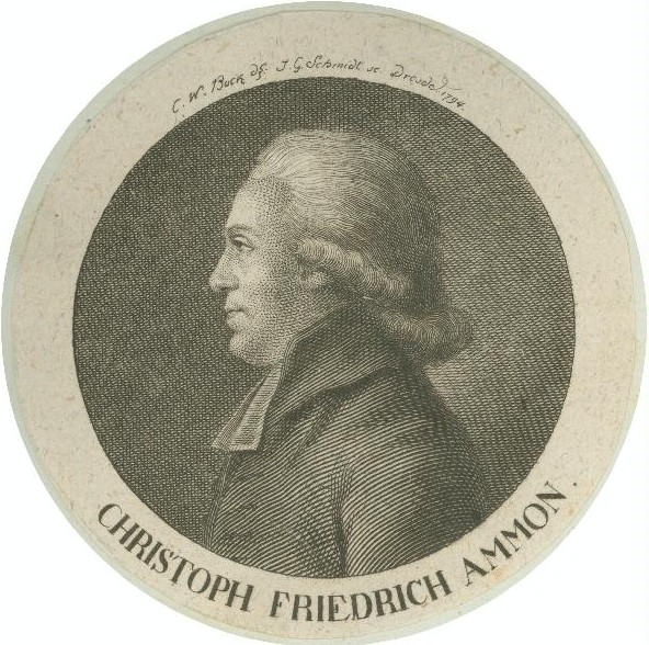 Portrait of Christoph Friedrich von Ammon (1766-1850), German theologian